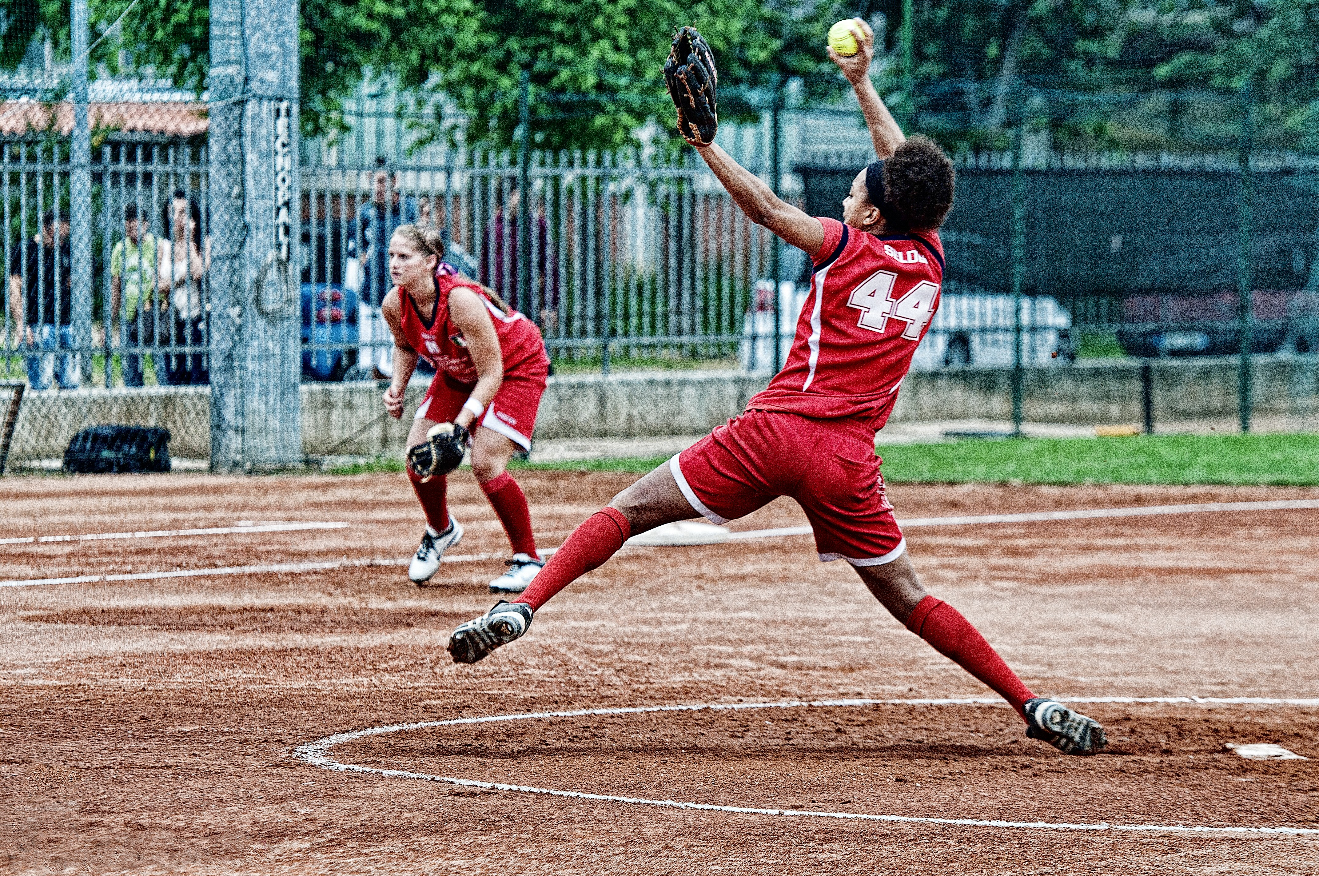 Caserta softball starting pitcher Anjelica Selden, during a match versus Rhibo La Loggia